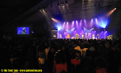 Cyber Fest Noz 2009